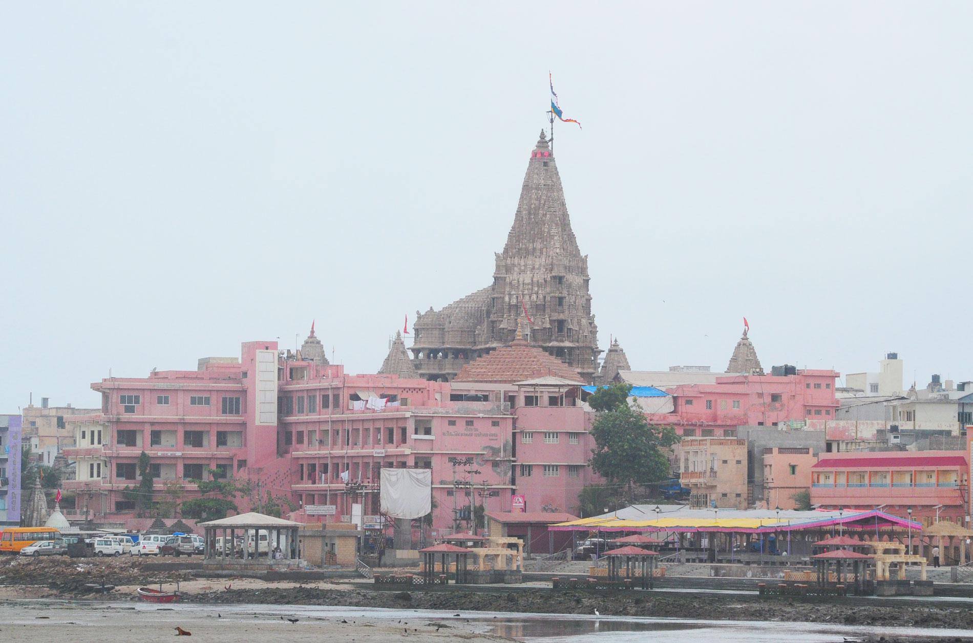 This is Dwarika jagat mandir of lord krishna located at bank of Gomati in Western coast of Gujarat state of India.